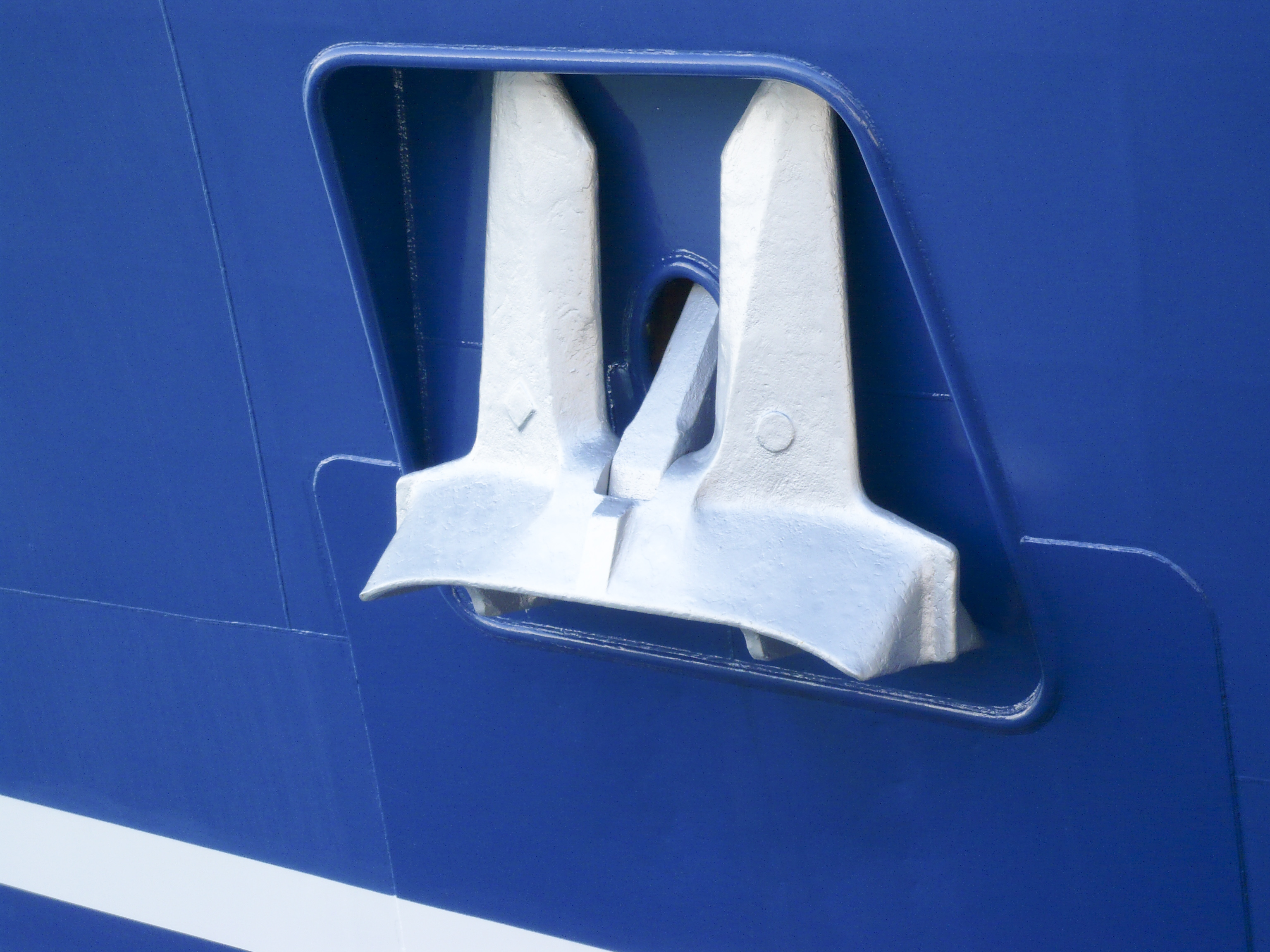 Anchor